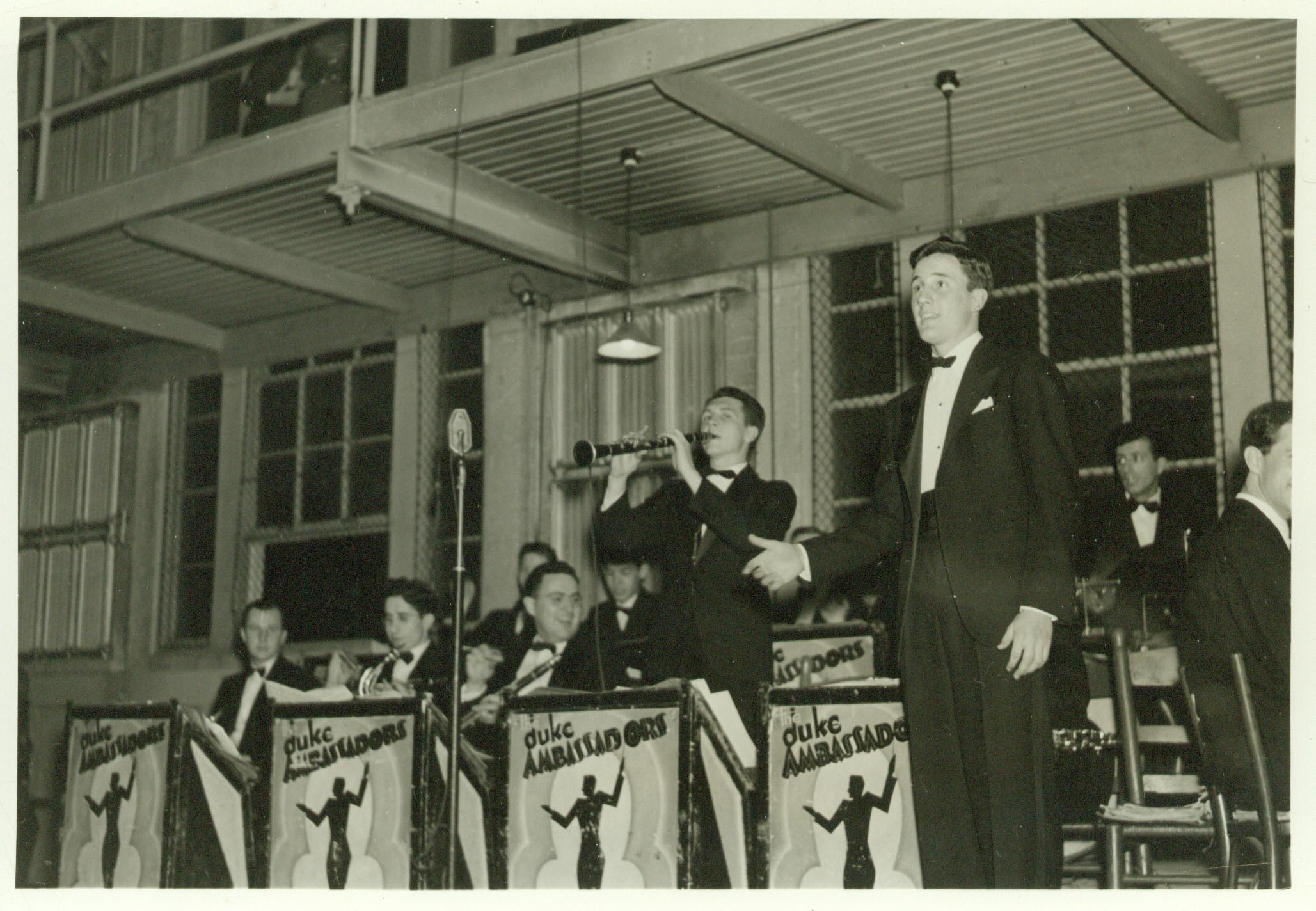 Duke Ambassadors performing in 1937; Courtesy of the Duke University Archives